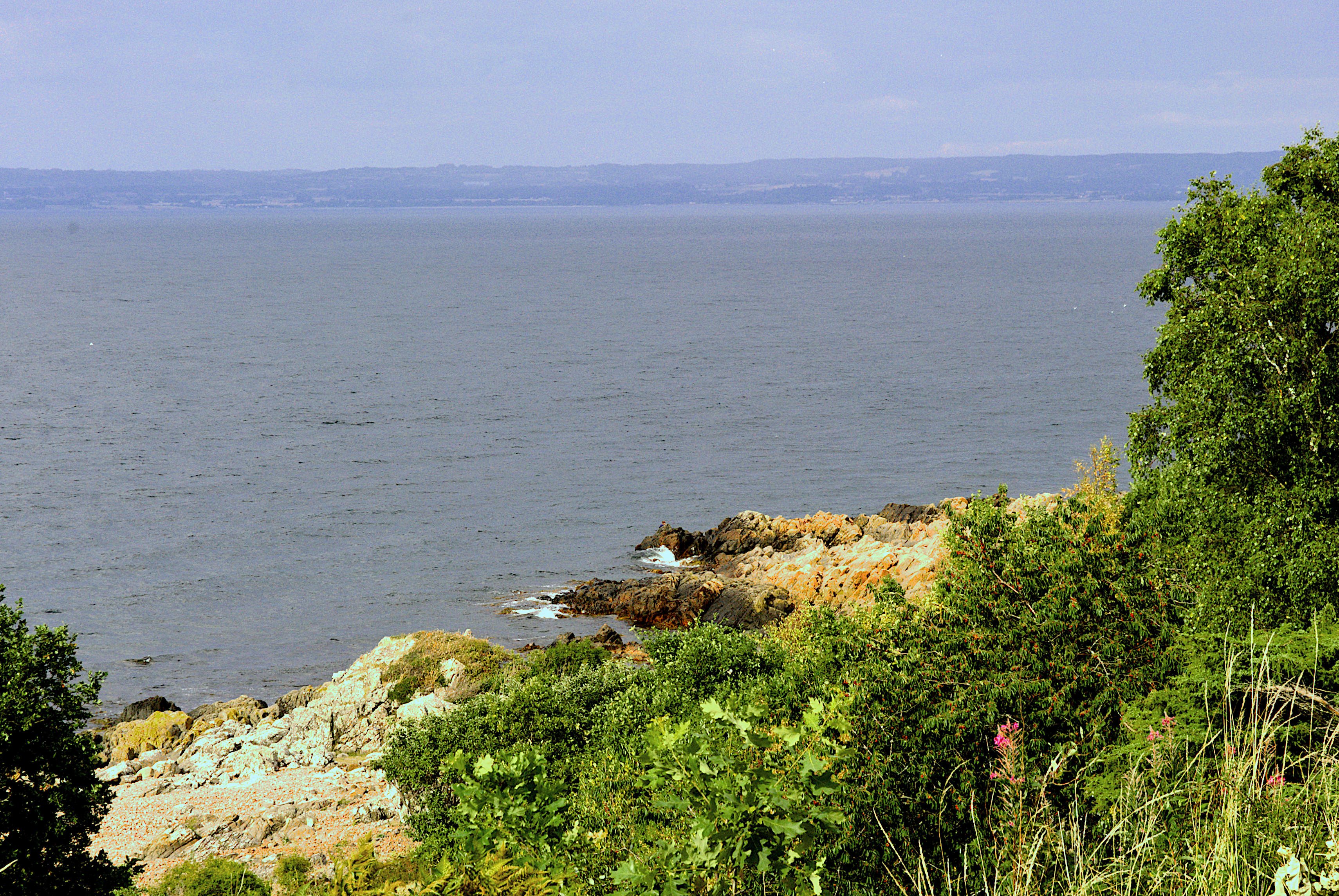 Skälderviken in Sweden seen from Arild on the Kullen peninsula